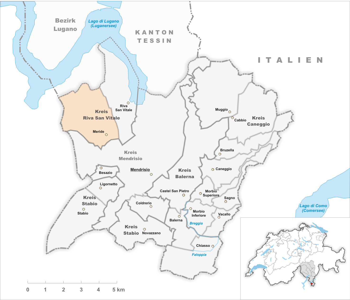 Municipality Meride Artist: Tschubby